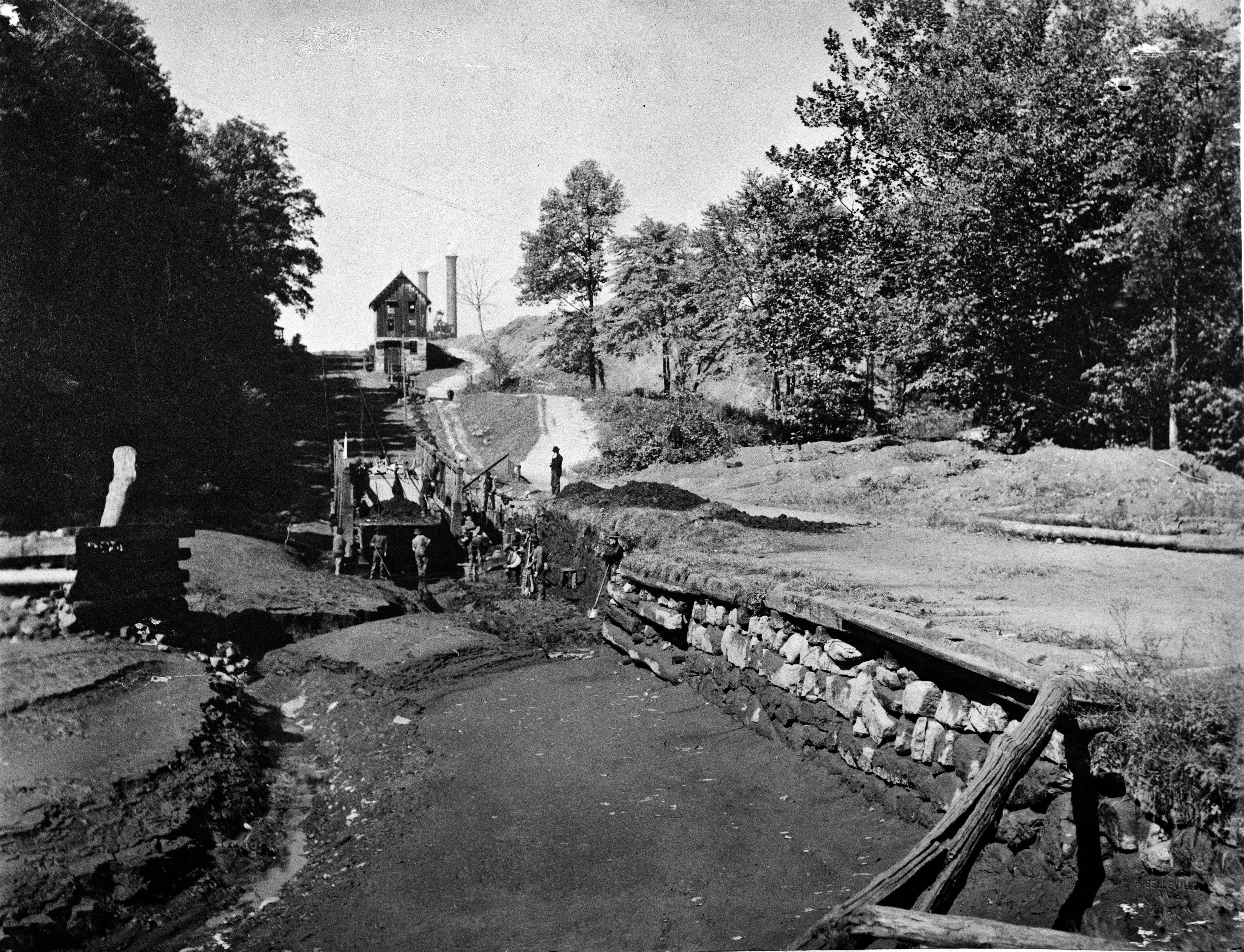 Maintenance work on Plane 5 E. HABS says: 68. CANAL PLAN 5 EAST. CANAL BED IS VISIBLE WHILE FOOT OF CANAL IS UNDERGOING MAINTAINANCE. NOTE HOW LARGE AMOUNTS OF DIRT ARE HAULED FROM PLACE TO PLACE USING A CANAL BOAT AND CRADLE. - Morris Canal, Phillipsburg, Warren County, NJ